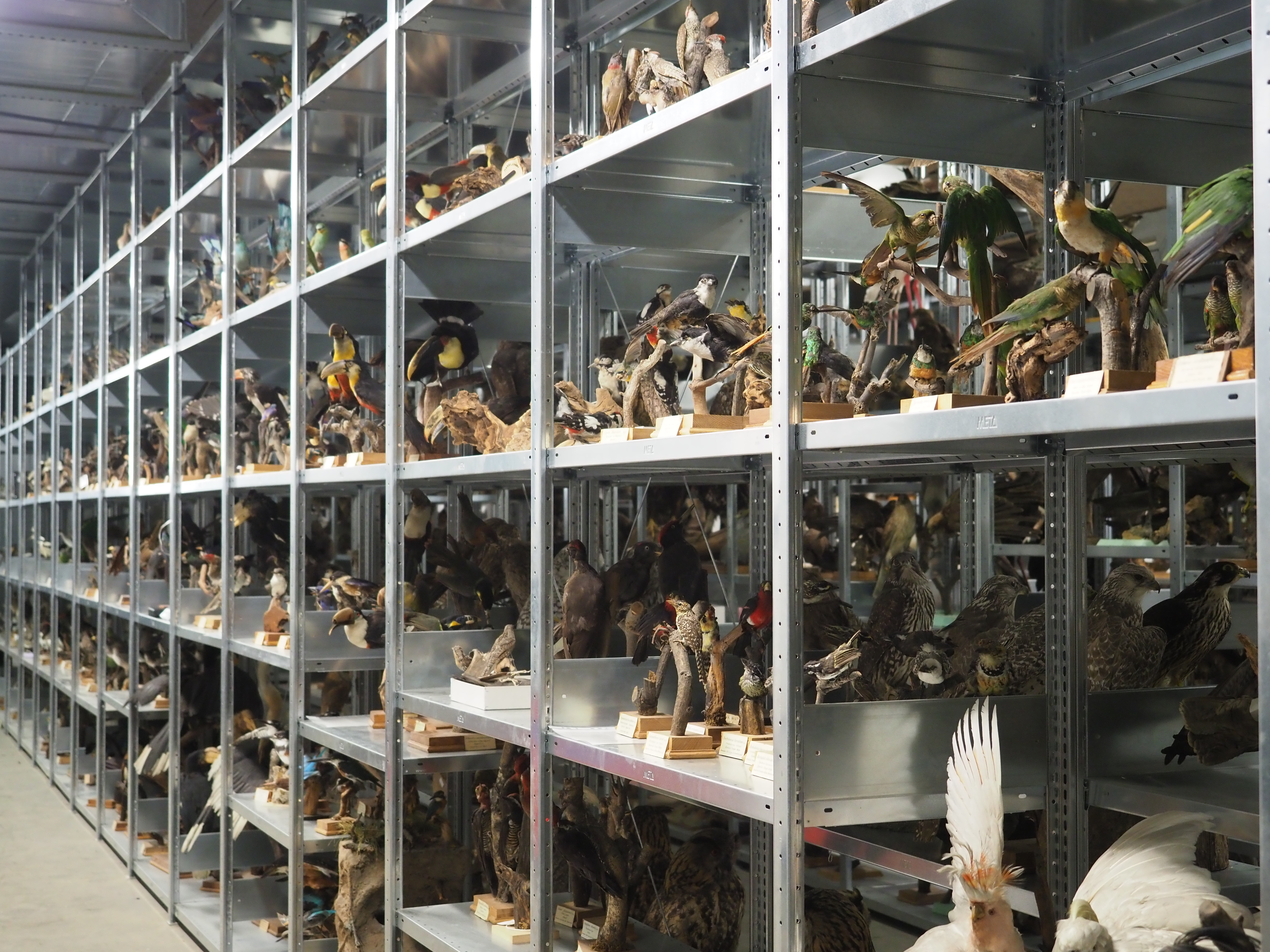 Natural history storage warehouse of the MnhnL in Kehlen